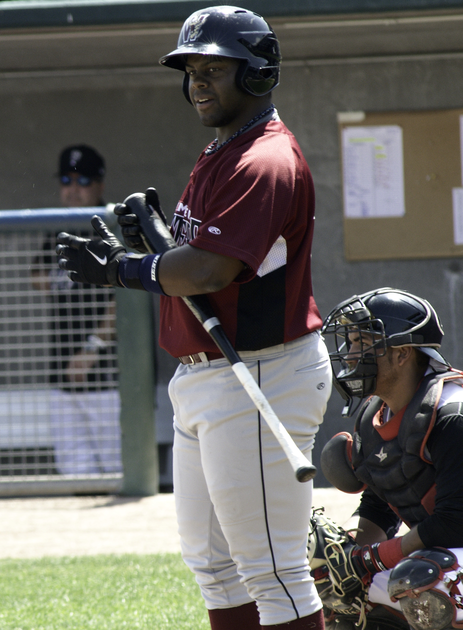 Jason Rogers at bat for the Wisconsin Timber Rattlers in a 2011 game against the Lansing Lugnuts